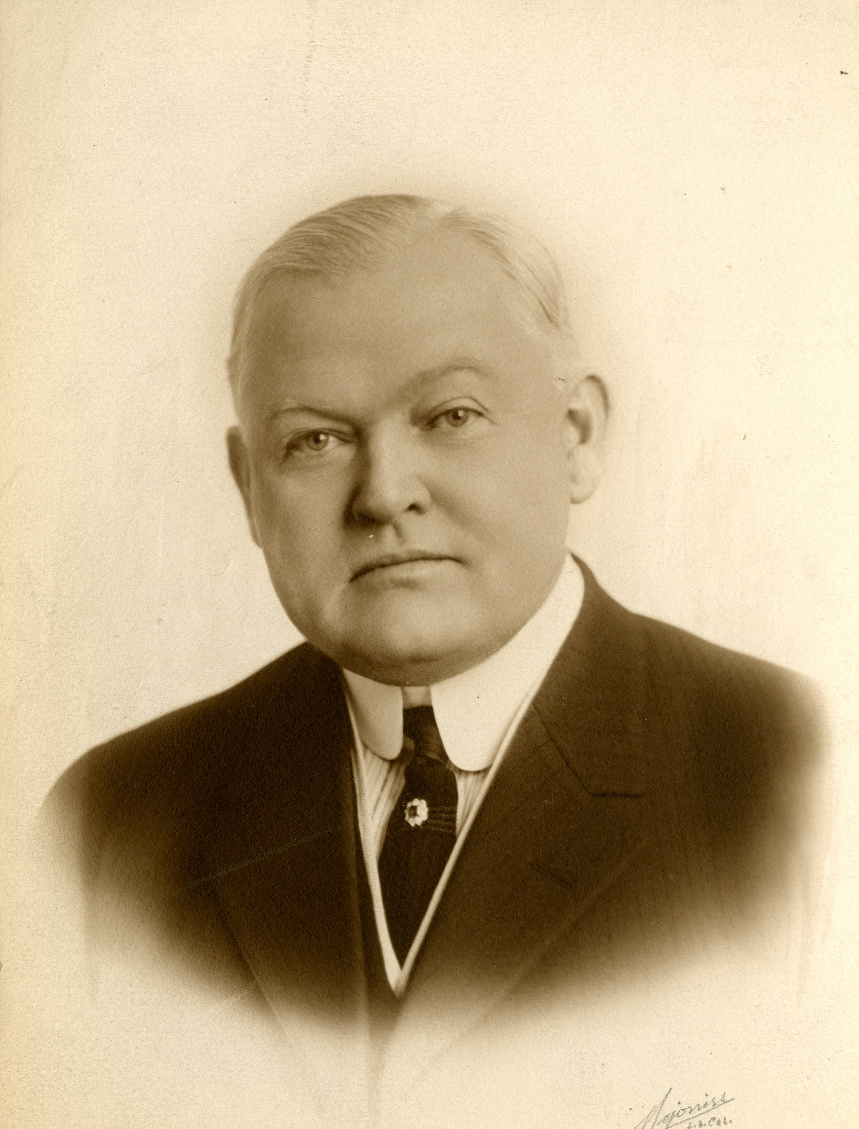 Theatrical manager John W. Considine. Subjects: impresarios